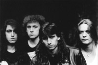 Addictive